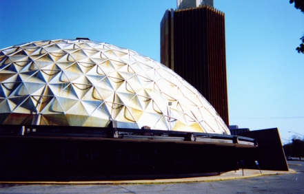 Oklahoma City landmark-Gold geodesic dome, in the home pf the city's Chinatown area, Asia District.